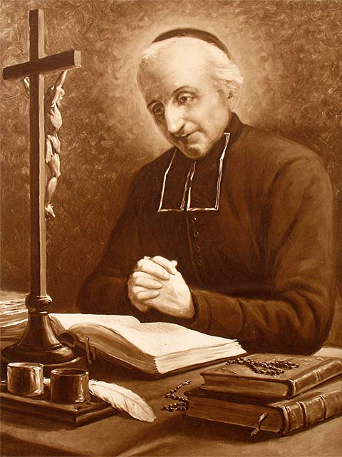 Andrew Fournet, founder of the Congregation of the Daughters of the Holy Cross.